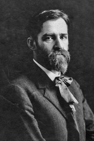 Edwin George Lutz Portrait